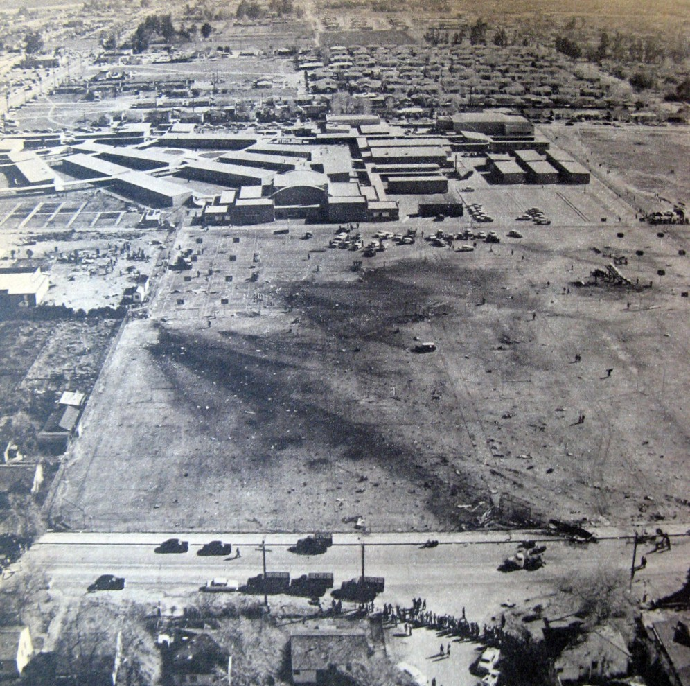 On January 31, 1957, a Douglas DC-7B operated by Douglas Aircraft Company was involved in a mid-air collision with a United States Air Force Northrop F-89 Scorpion and crashed into the schoolyard of Pacoima Junior High School located in Pacoima, a suburb in the San Fernando Valley of Los Angeles, California.